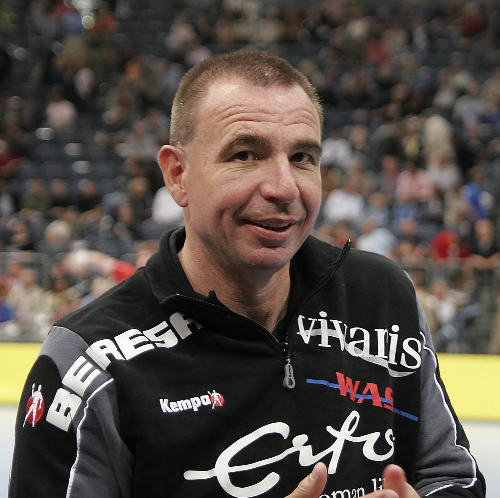 Jochen Fraatz, Co-Trainer of HSG Nordhorn. Former German international and top scorer in the Bundesliga. Picture made prior the game VfL Gummersbach vers. HSG Nordhorn in Cologne (Köln-Arena)